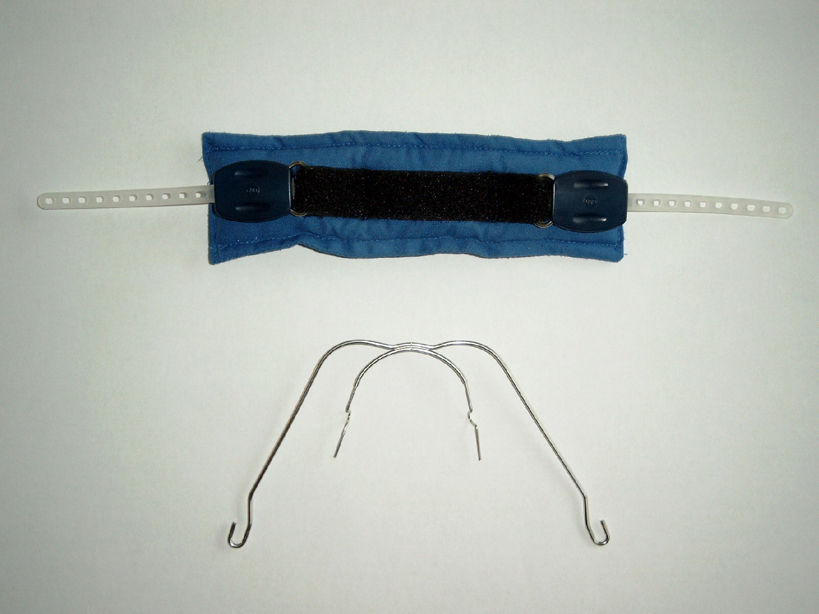 Orthodontic headgear with neck pad